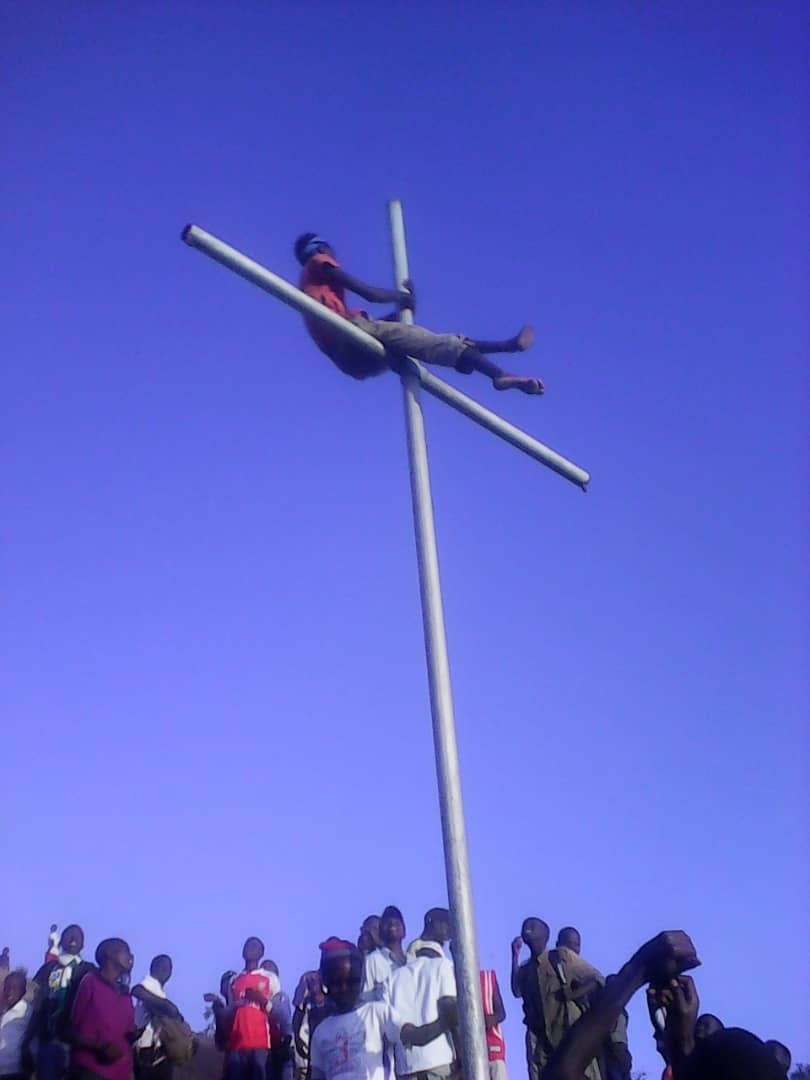 A young man swings on the 5metres Crucifix which has been installed on Kalongo Mountain by the catholic church during Annual end of year celebration. The crucifix stands near the highest clift of the mountain whereby when he falls, he will never be seen again. This is an image with the theme "Africa on the Move or Transport" from: Uganda